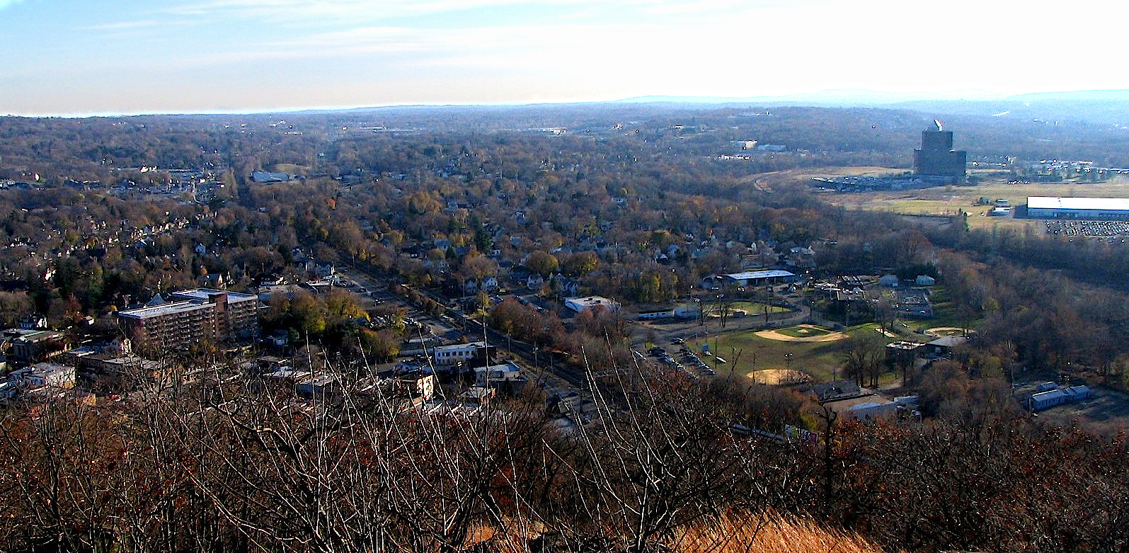 Suffern, New York Taken from Nordkop Mtn on 11/15/04.